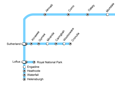 Sutherland Line's map.(1987)